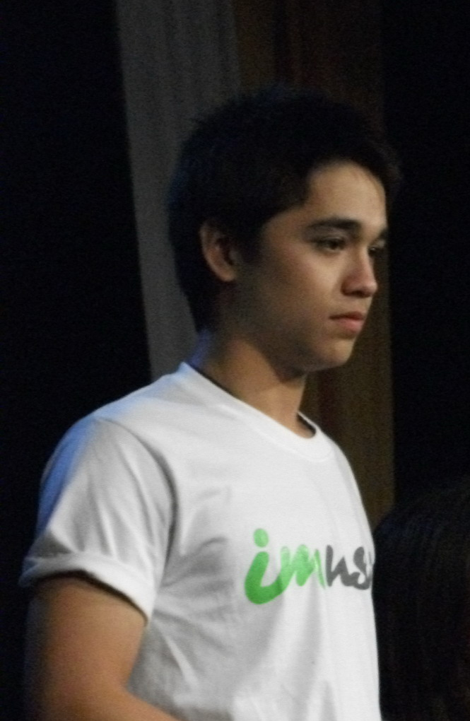 Alex Rendell at MTV Fast Forward.